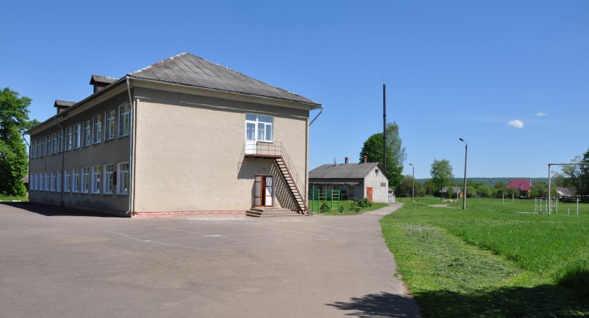 School of general education №9